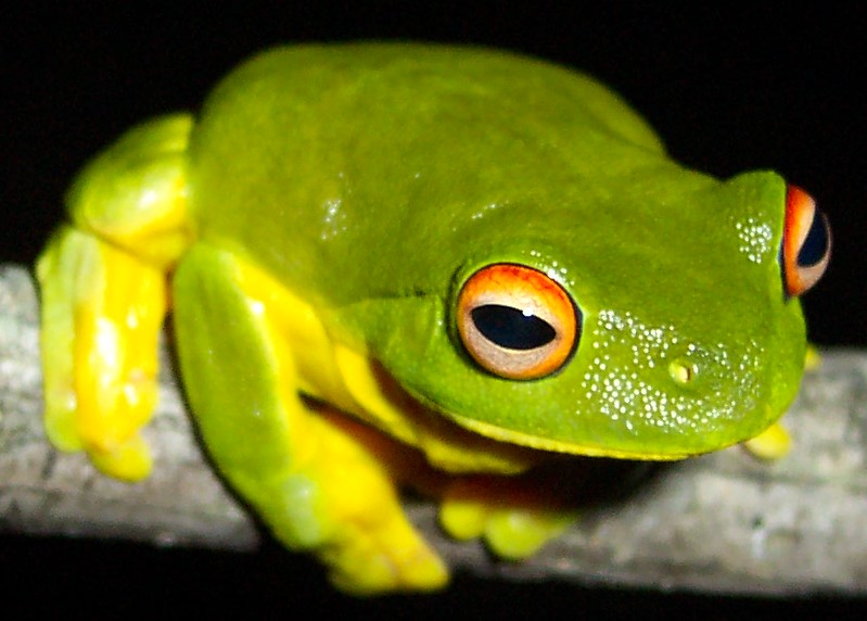 A Red-eyed Tree Frog (Litoria chloris) from the Watagans National Park, NSW.